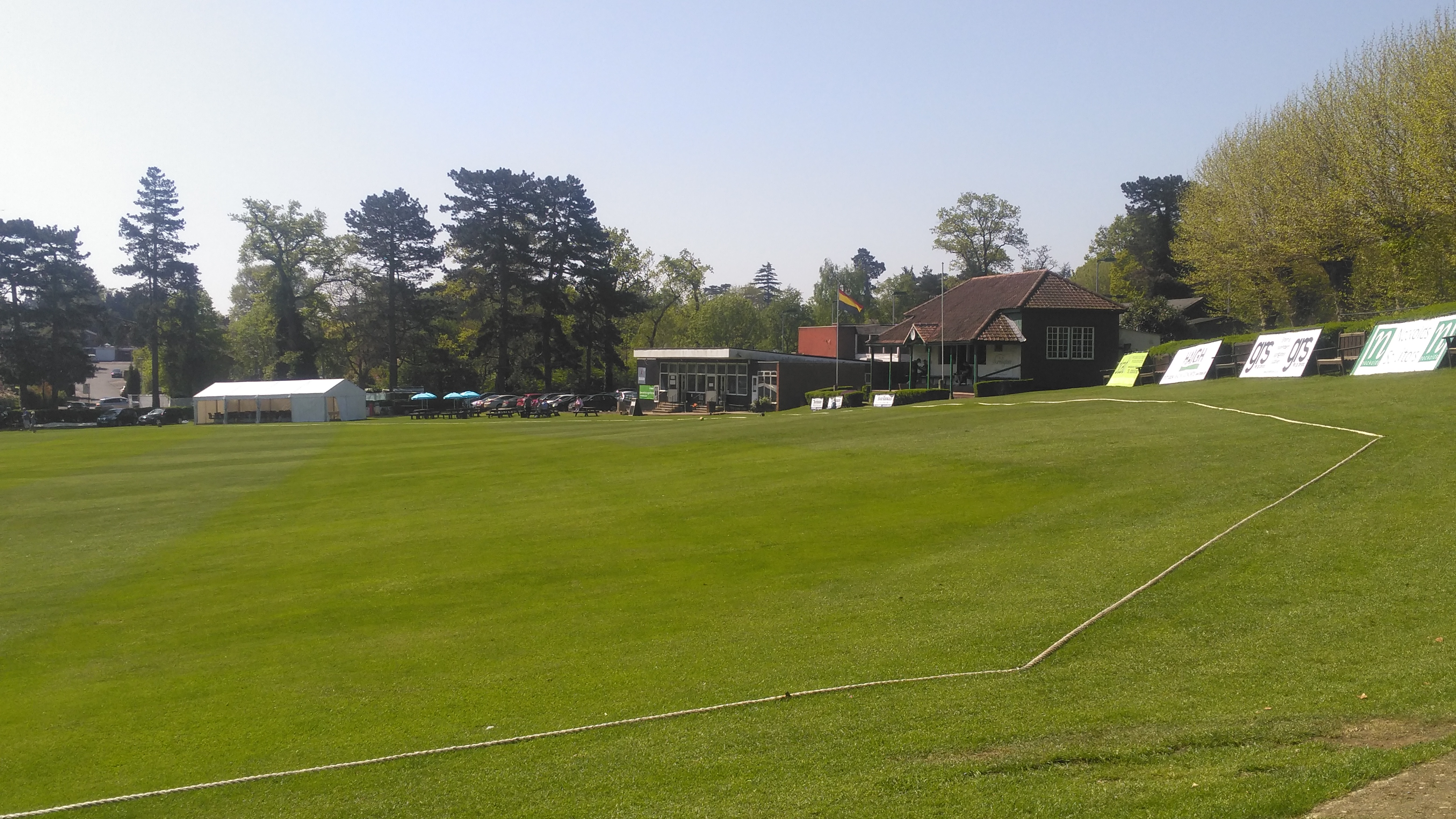 Photo taken by me during the first Minor Counties T20 match played between Hertfordshire CCC and Cambridgeshire CCC on 6 May 2018 at Cricket Field Lane, Bishop's Stortford. The players' pavilion and clubhouse/bar.